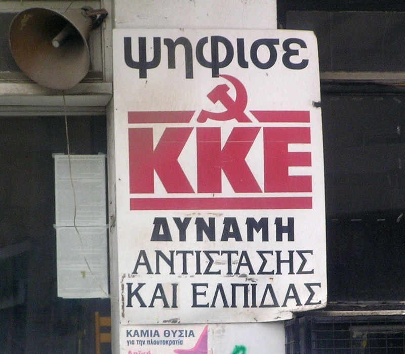 A KKE sign in Athens, Greece